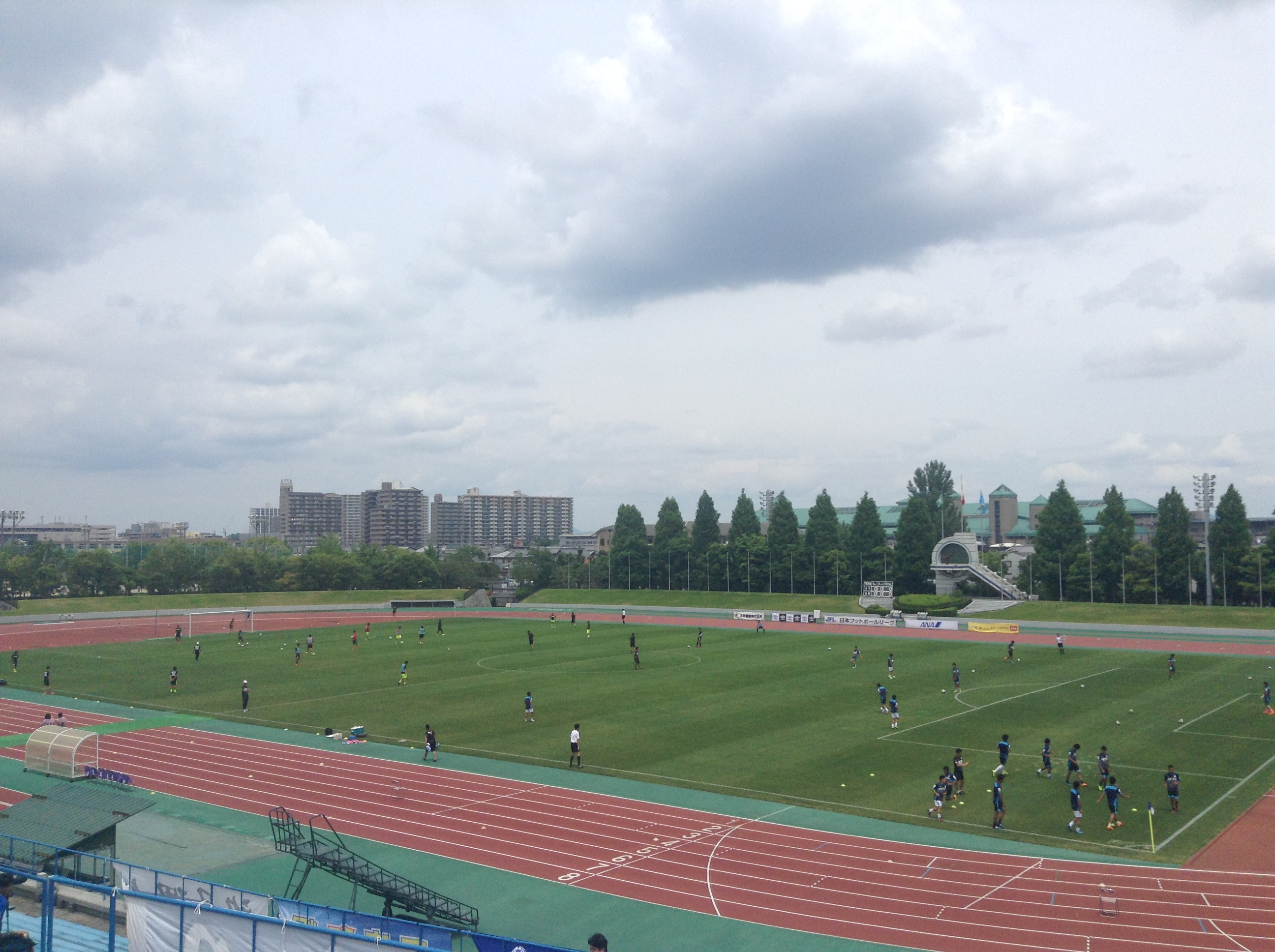 17th Japan Football League, MIO Biwako Shiga vs Azul Claro Numazu , June 7, 2015.